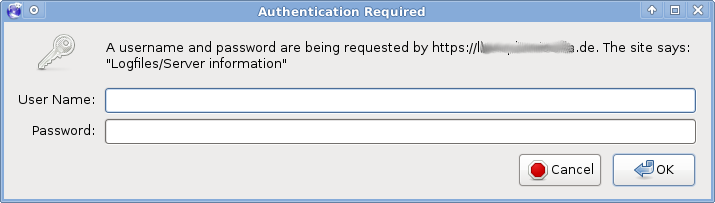 Screenshot of an authentication window of Iceweasel 10.0 (almost the same like Firefox)